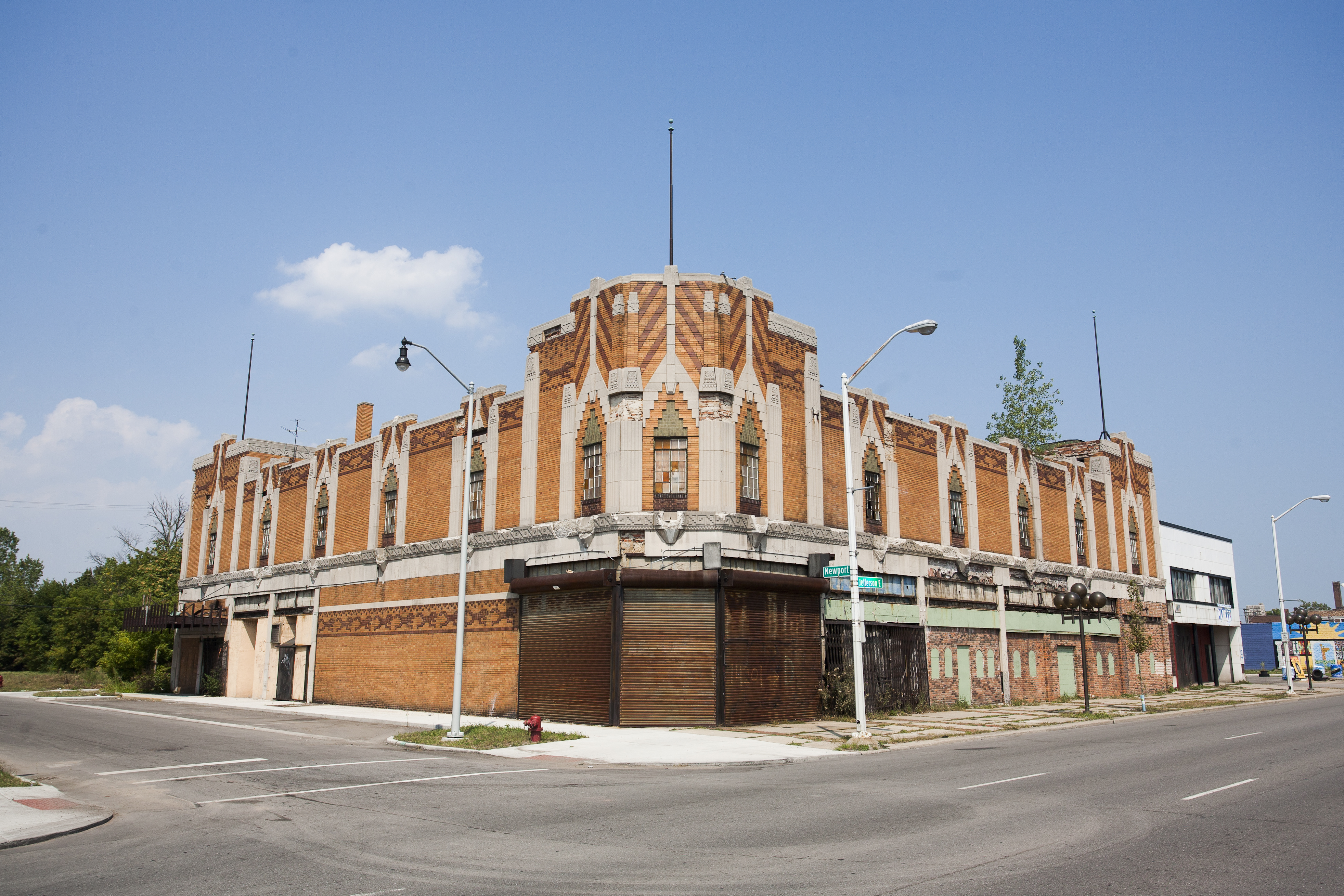 The Vanity Ballroom as seen from Jefferson avenue in the fall of 2010.